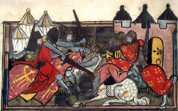 Miniature from Benoît de Sainte-Maure's "Le Roman de Troie".